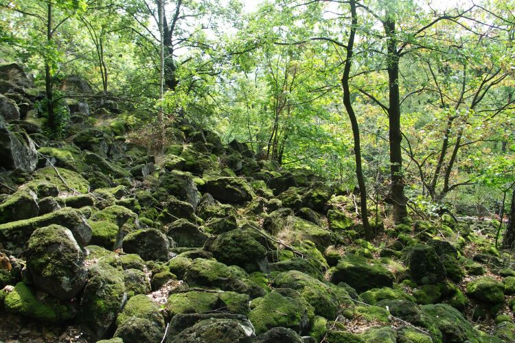 On the Löbau Mountain in Saxony, Germany.